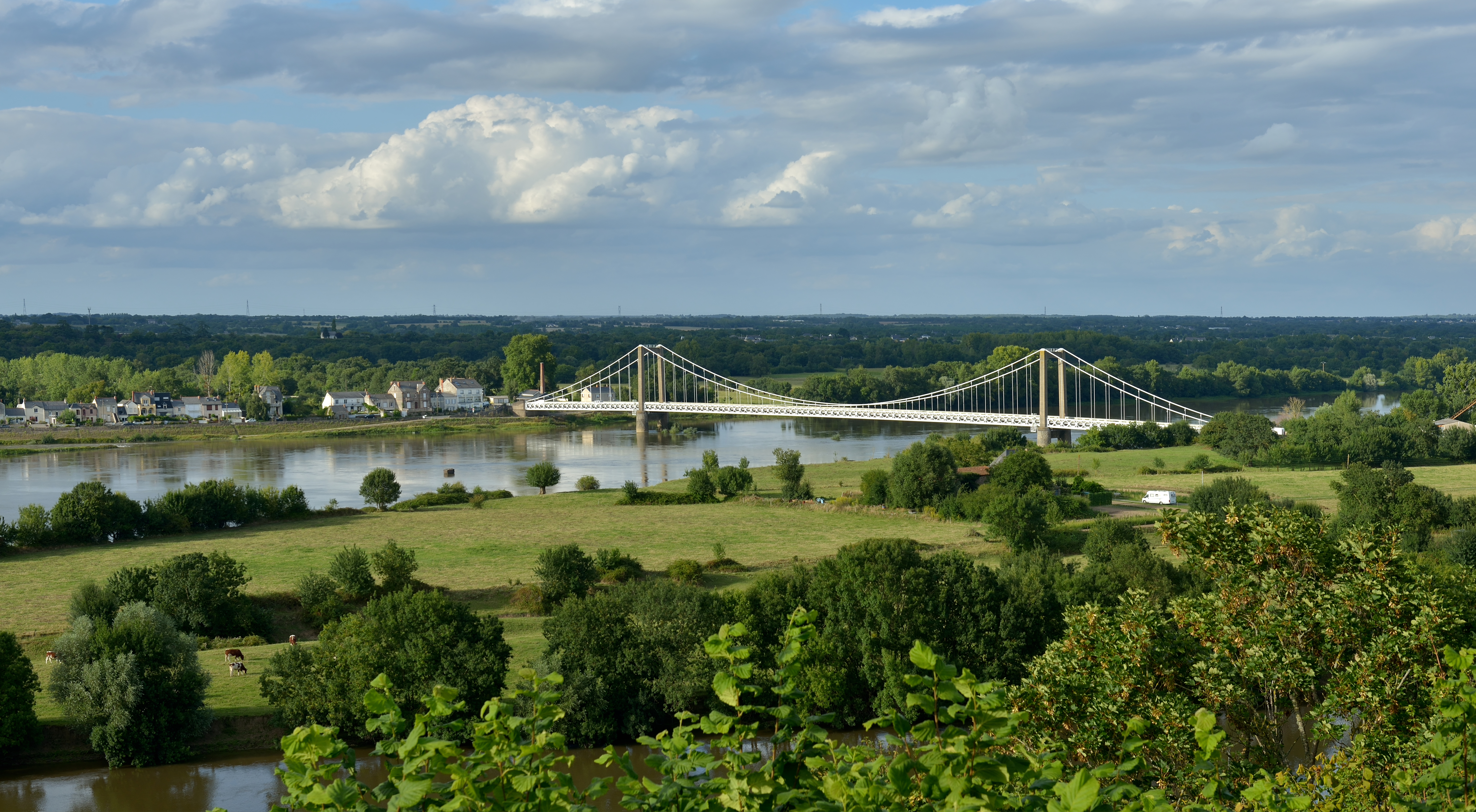 "Pont de Varades" bridge on the Loire river in France